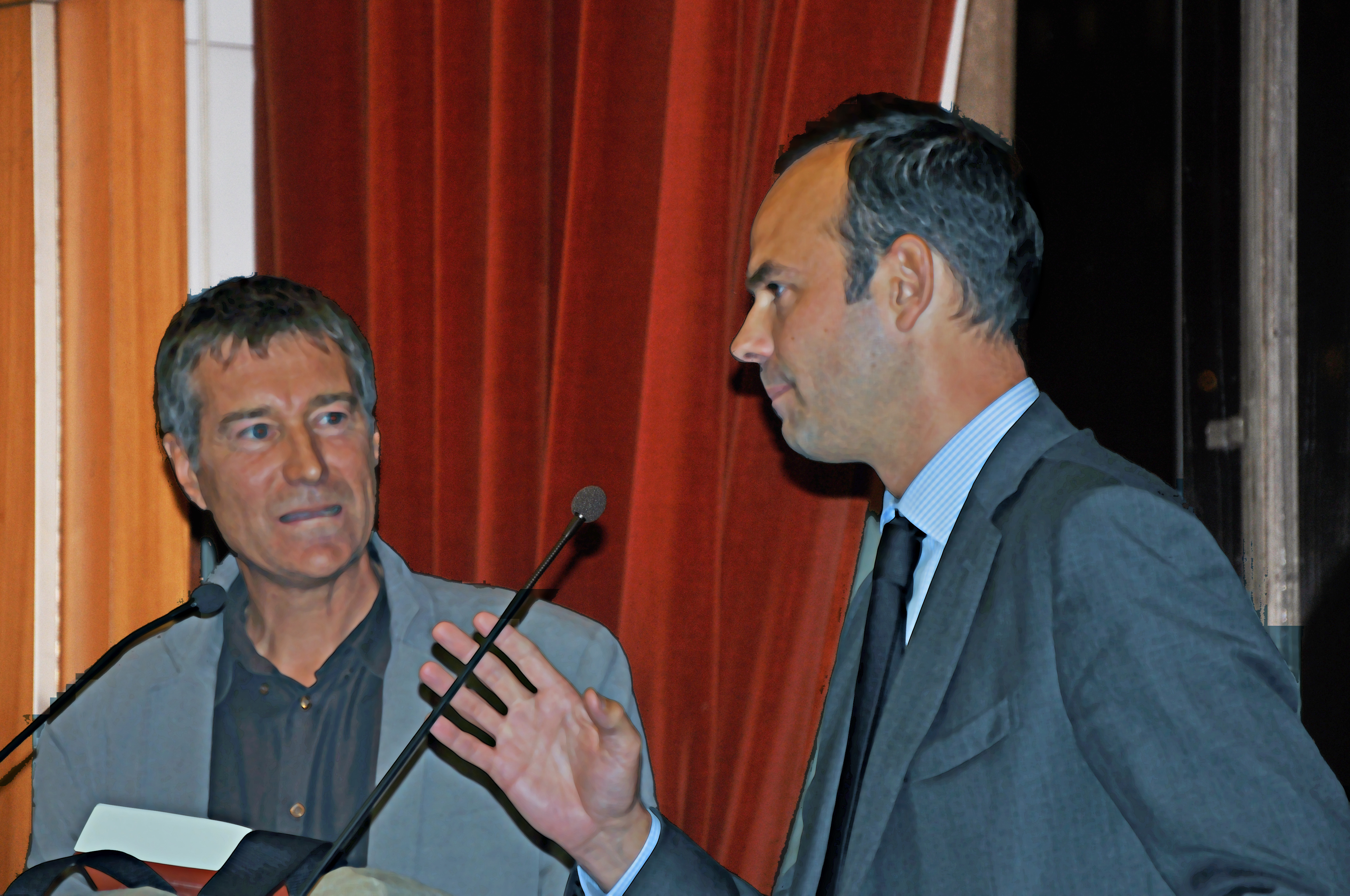 Writer Olivier Merle (left) and major of Le Havre (France, Normandy) Édouard Philippe (right)